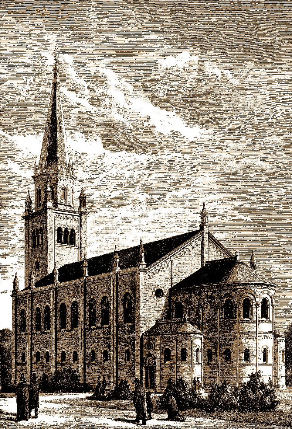 Early image of Sankt Mathæus Kirke in the Vesterbro district of Copenhagen, Denmark